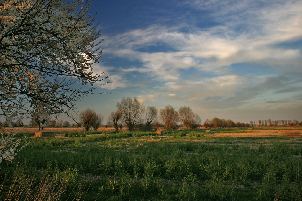 Zulawy near Gdansk - Krzywe Kolo